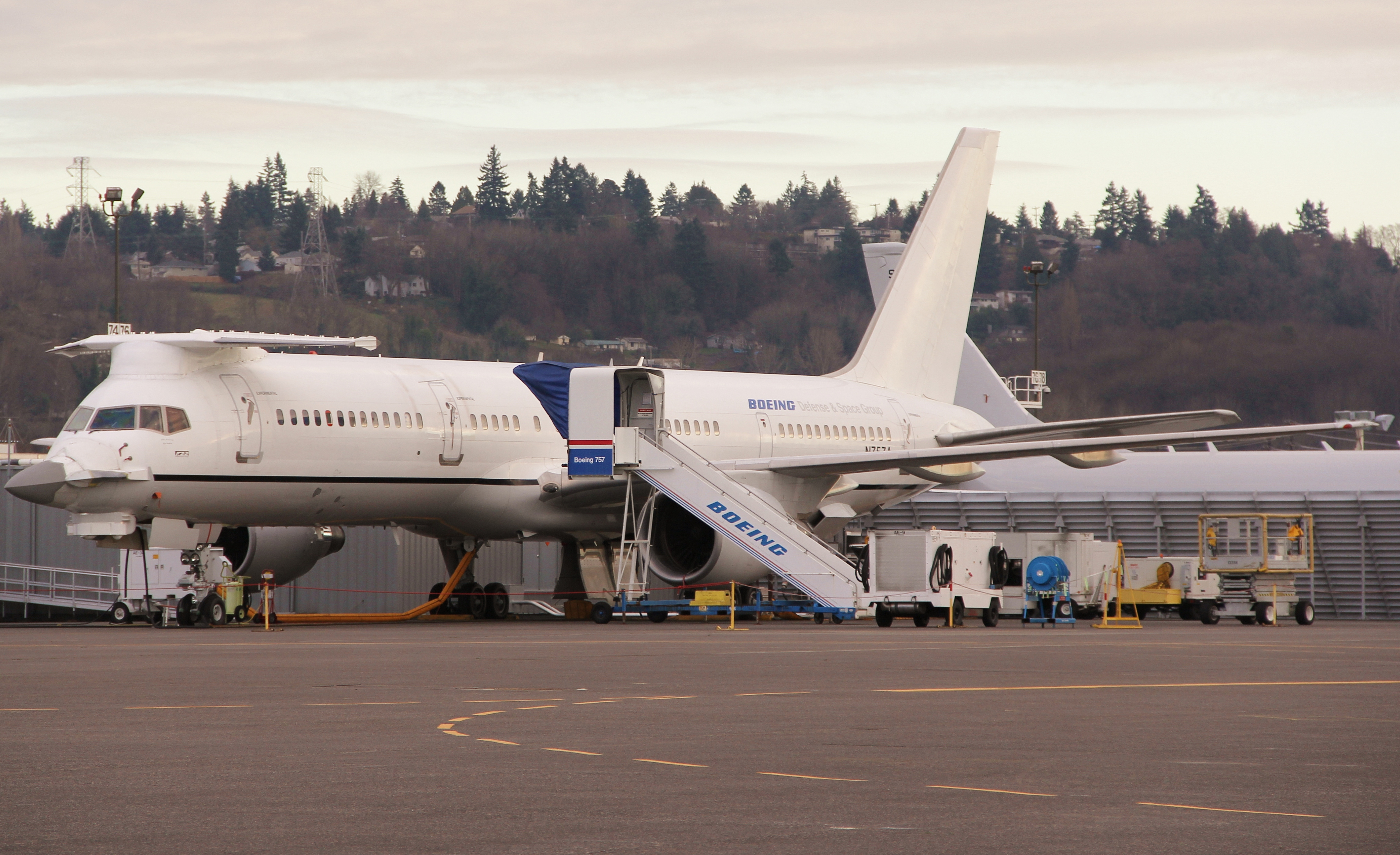 This is the first prototype of the Boeing 757 series, which sits in the Boeing Military Systems area right next to the Museum of Flight today. The strange looking things mounted at the front of the airplane are the nose and avionics systems of the F-22 Raptor for which this aircraft was a testbed.